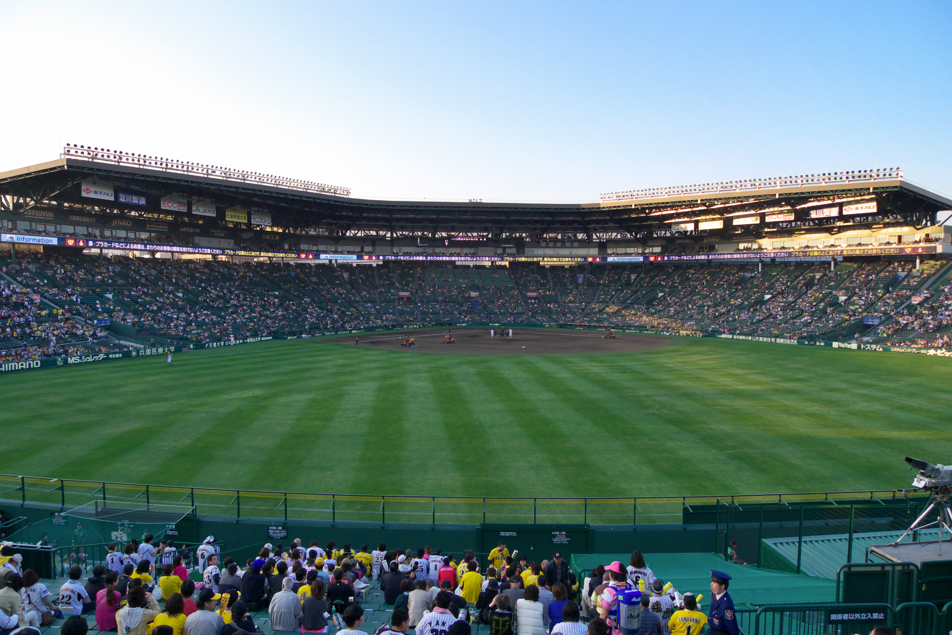 Extended Ginsan roof over the infield seats and newly installed "Liner Vision" board at Hanshin Koshien Stadium, after the 2009 renewal